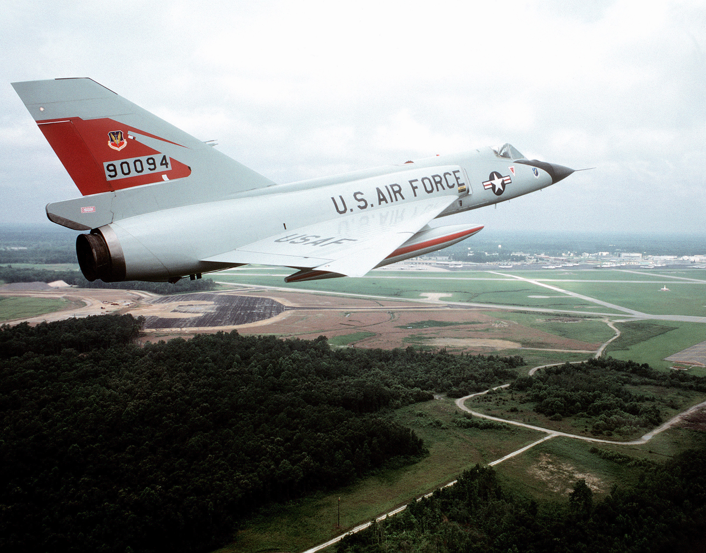 An air-to-air right side view of an F-106 Delta Dart aircraft from the 87th Fighter Interceptor Squadron.